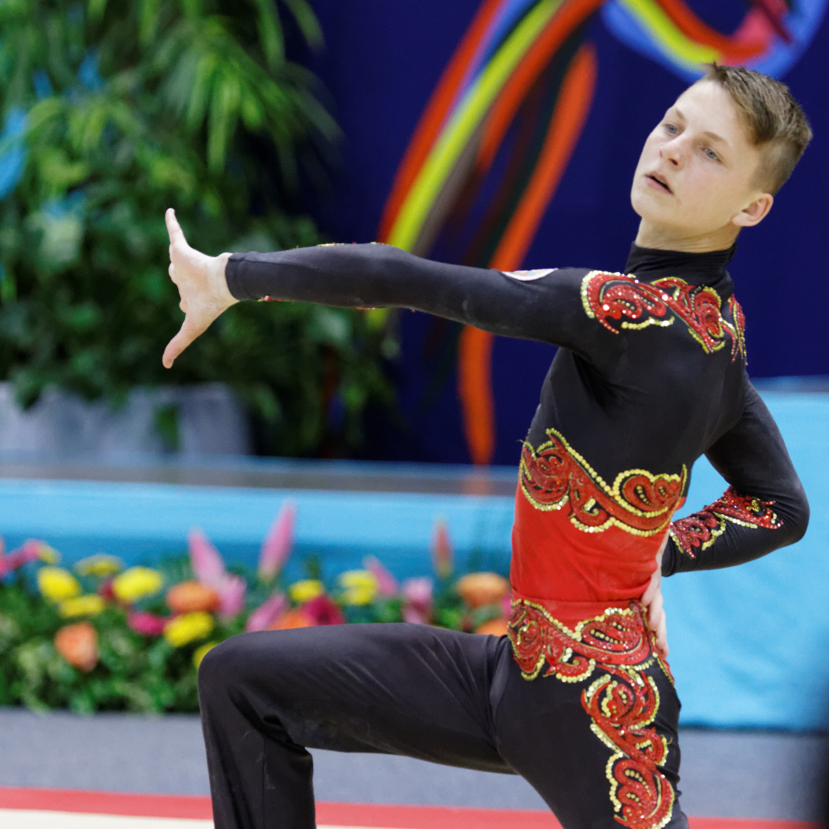 2014 Acrobatic Gymnastics World Championships, 10th-12 July, Levallois-Perret, France. Finals: men's pair. Belarus.